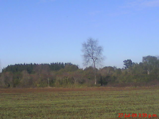 Lautaro Galvarino roadside landscape in Coihueco